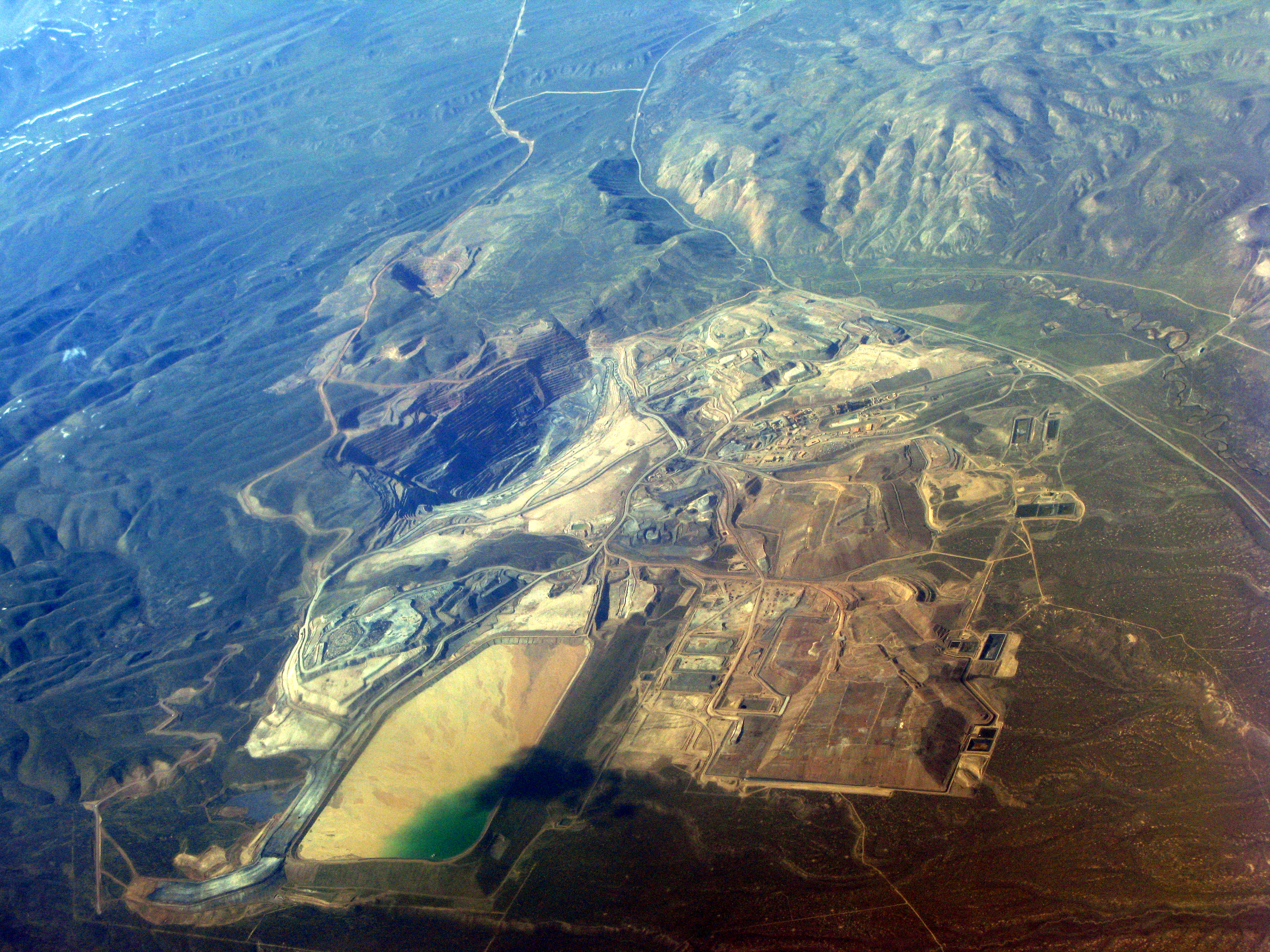 Newmont Gold Quarry mine, outside Carlin, Nevada